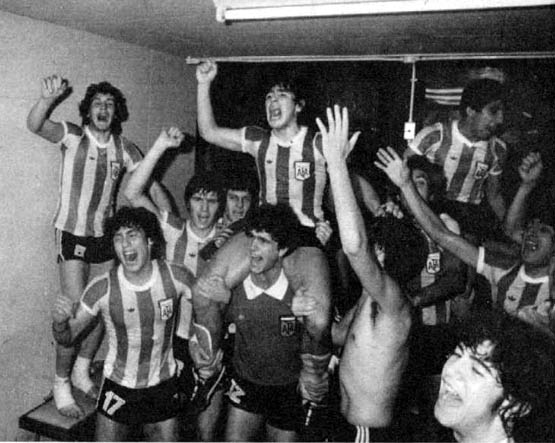 Players of Argentina youth team celebrating their first world title.